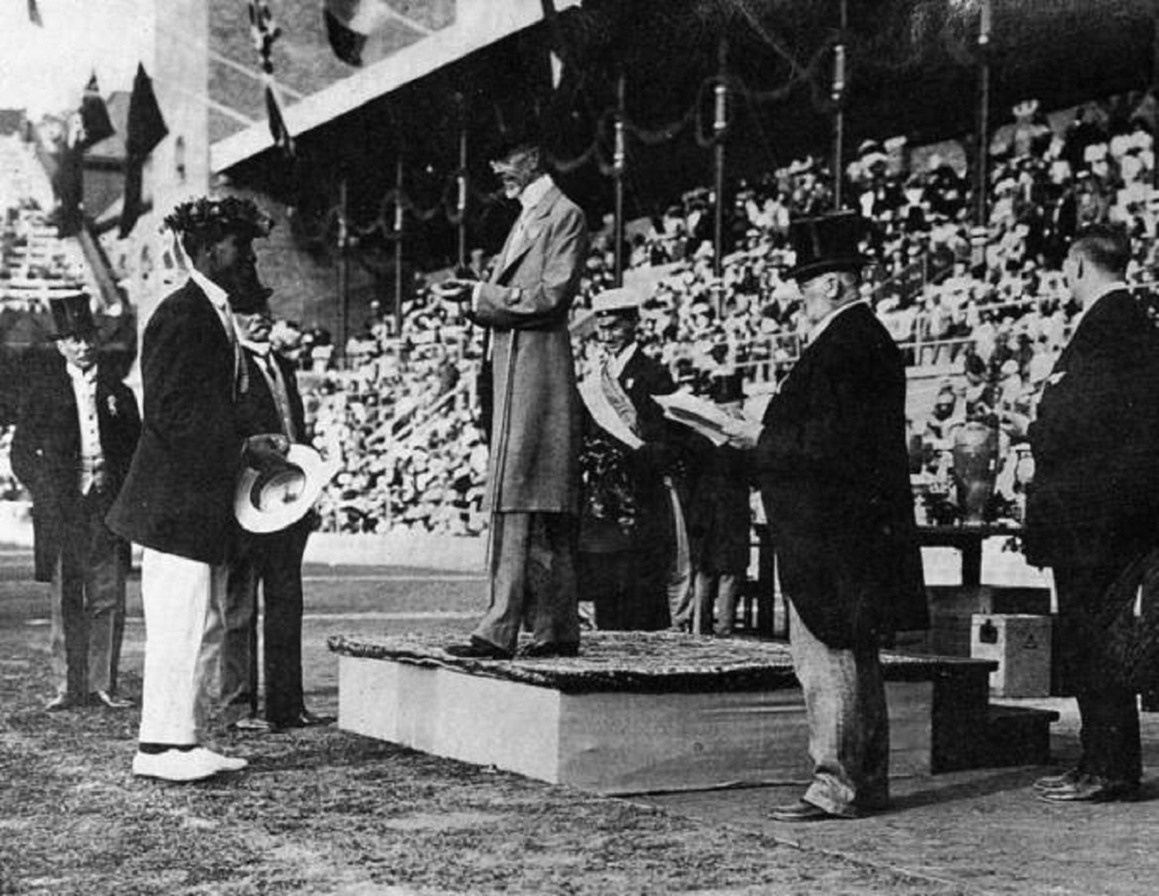 Duke Kahanamoku accepting the Olympic Gold Medal from King Gustav, Stockholm, Sweden 1912.